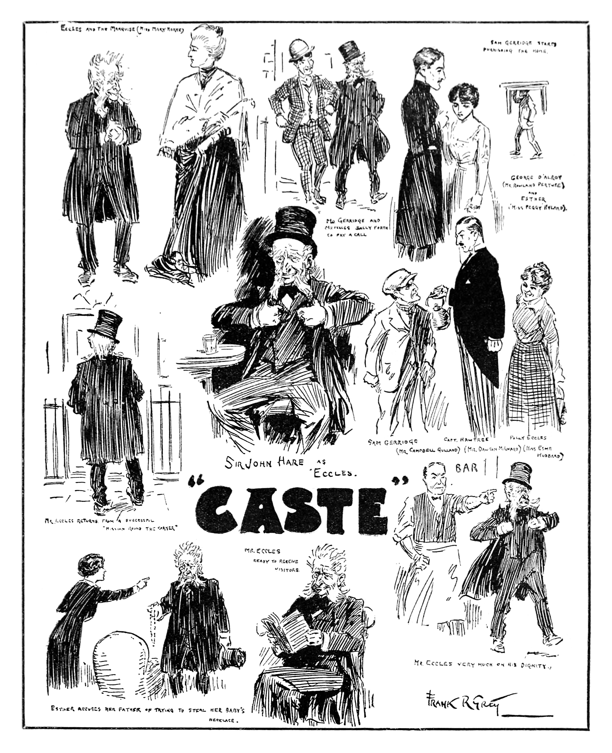 Drawing illustrating scenes from the 1915 film Caste featuring Sir John Hare